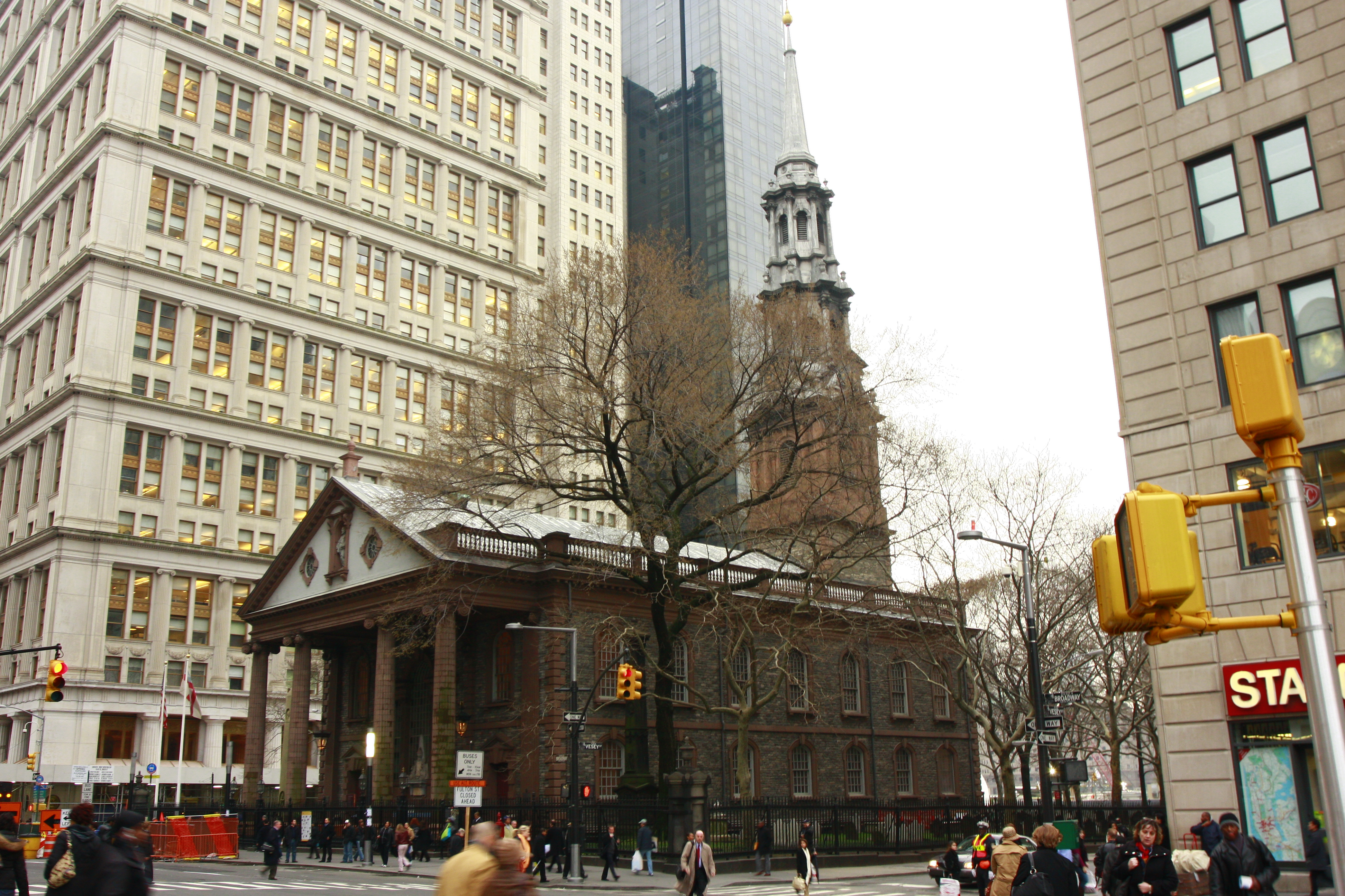 This photo is of Wikipedia Takes Manhattan location code 172, St. Paul's Chapel.